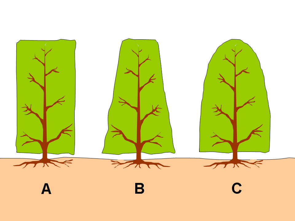 Basic cuts of a hedge